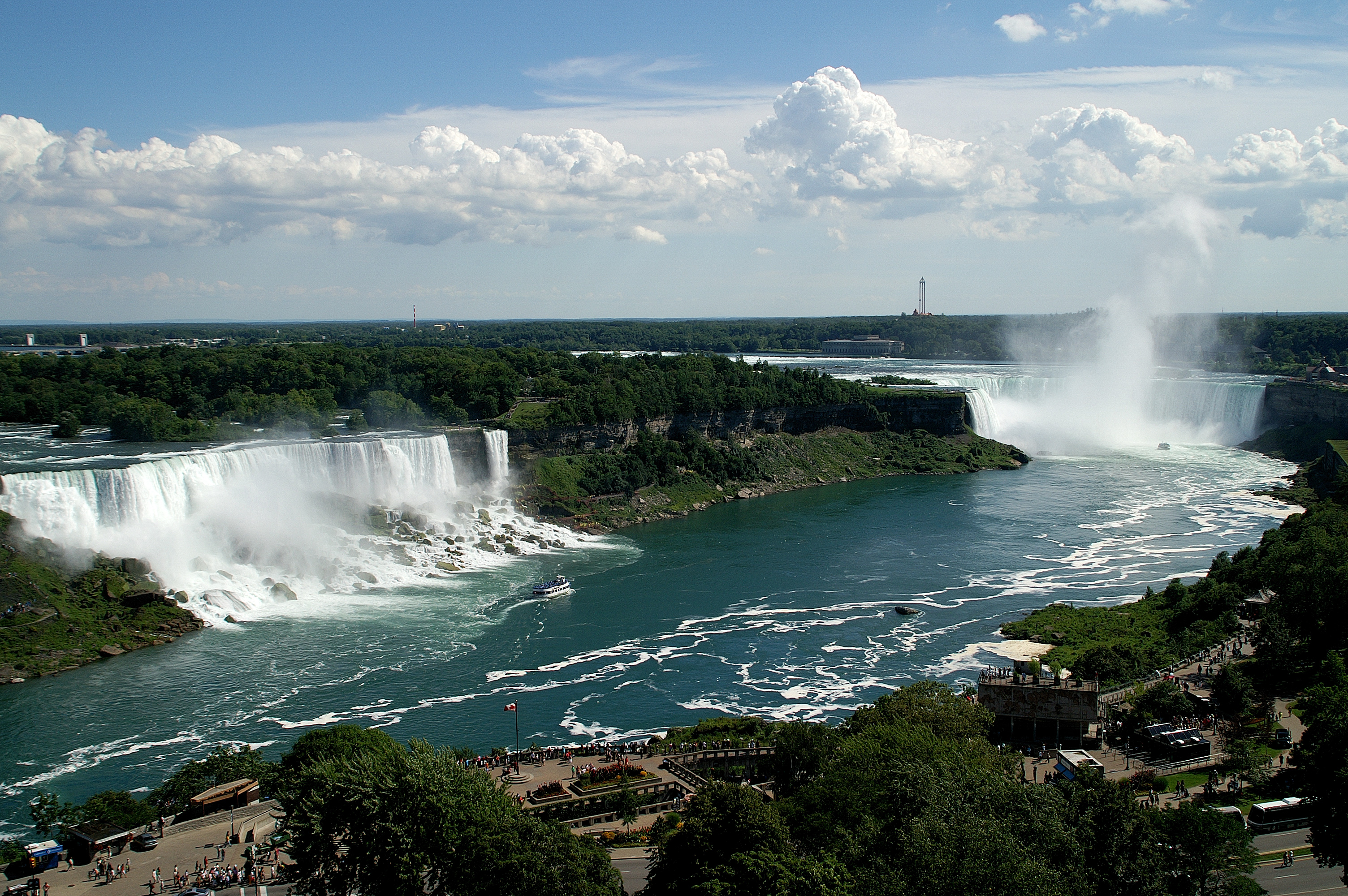 A view of the American, Bridal Veil and Horseshoe Falls from the Presidential Suite of the Sheraton Fallsview Hotel, Niagara Falls, Ontario, Canada.